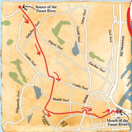 A map showing the course of the Farset river, from Ballysillan in North Belfast to it's outlet into the Lagan in the city centre.